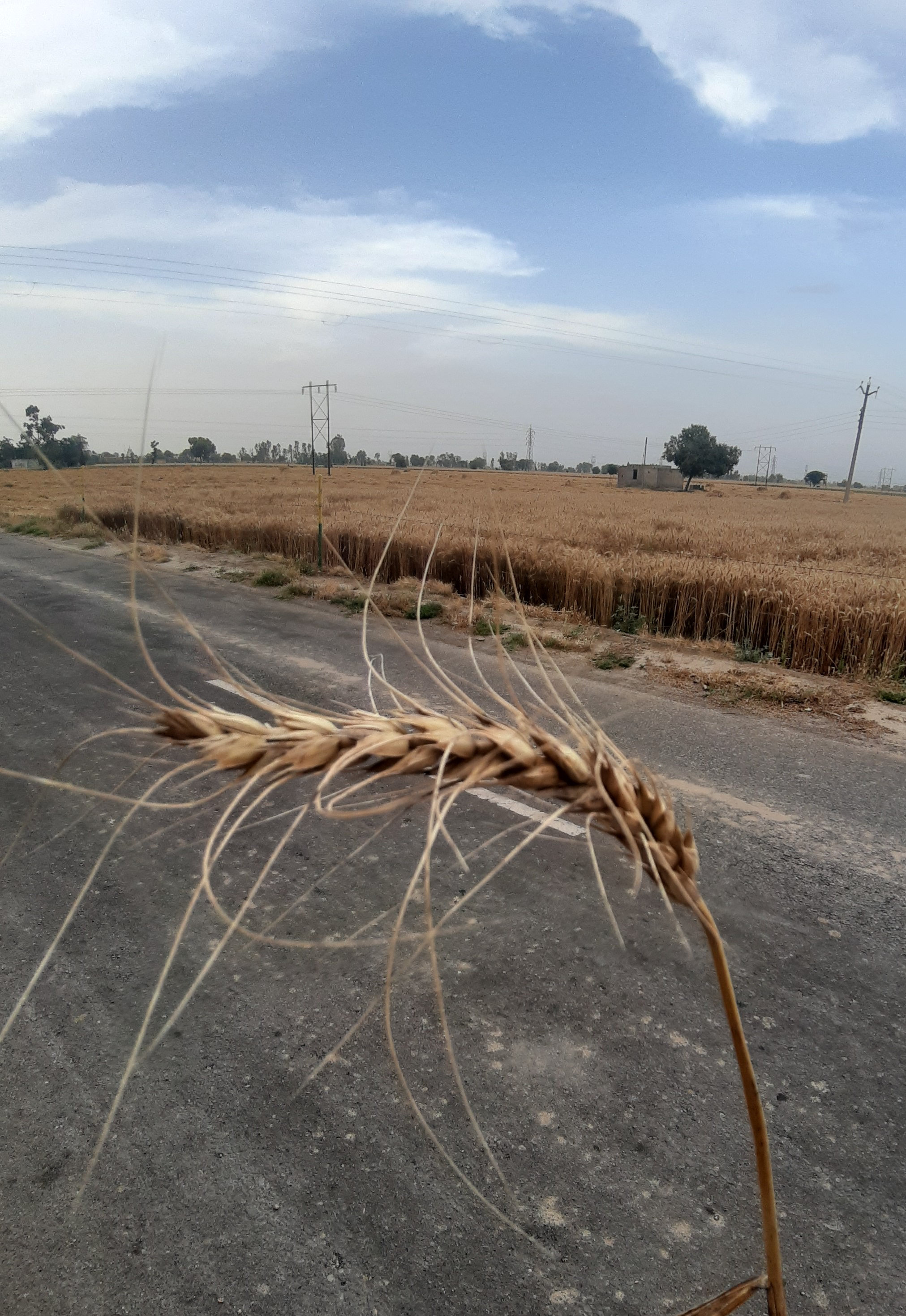 ਅਪ੍ਰੈਲ ਮਹੀਨੇ ਵਿਚ ਪੰਜਾਬ ਵਿਚ ਕਣਕ ਦੀ ਫ਼ਸਲ ਪੱਕ ਜਾਂਦੀ ਹੈ।